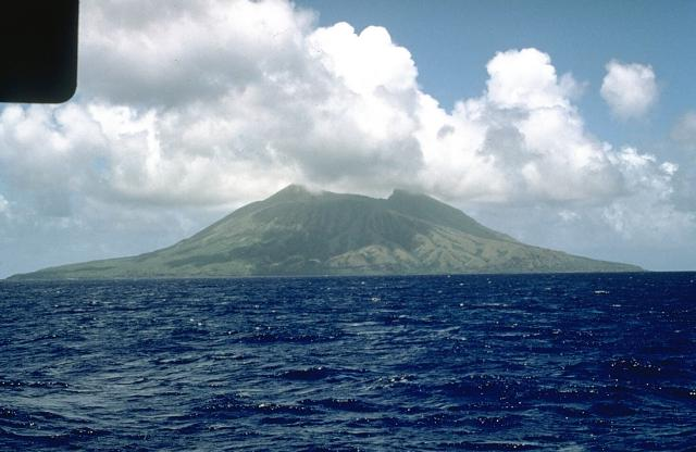 Alamagan in the Northern Mariana Islands, seen here from the west.